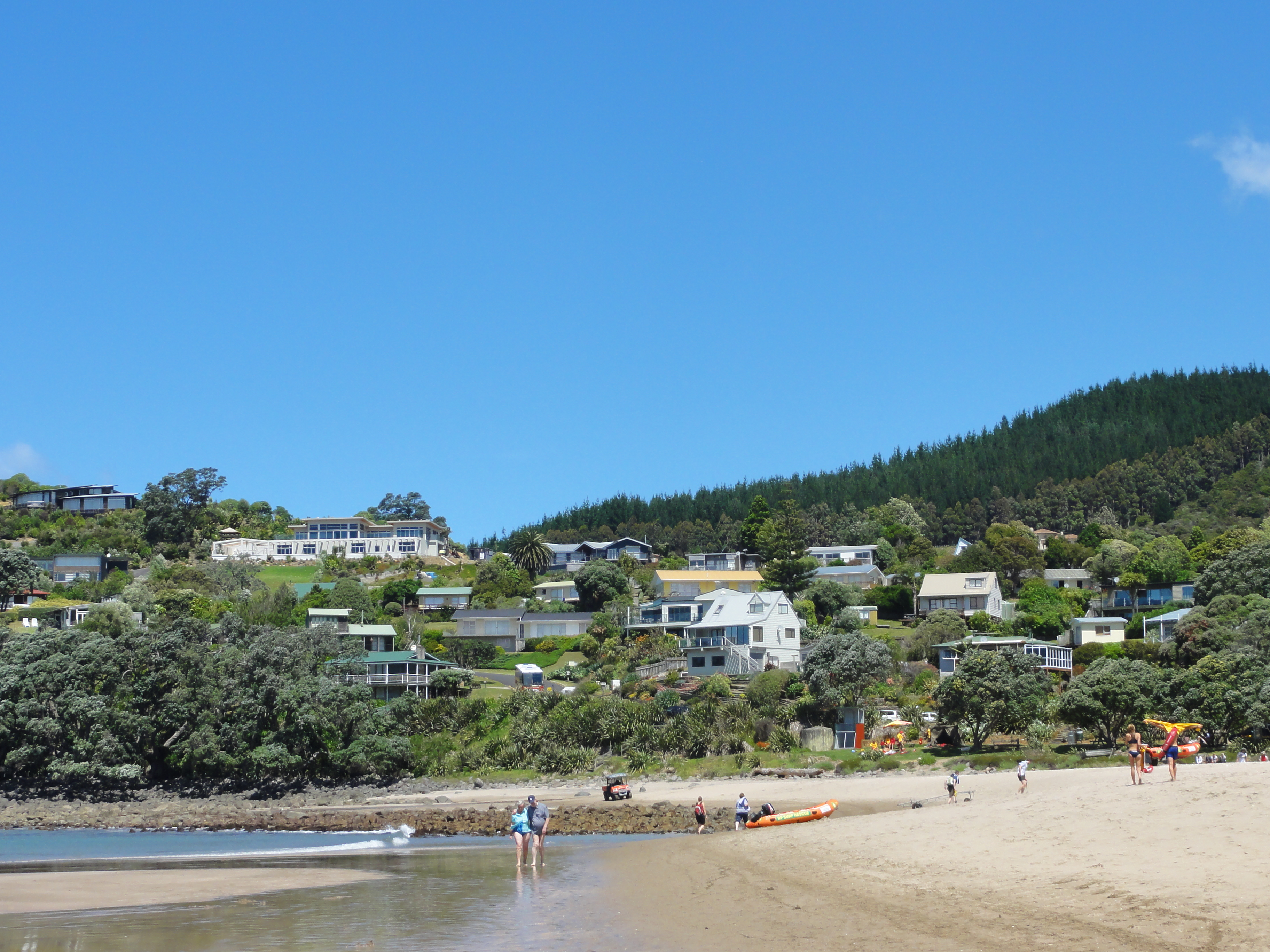 Hot Water Beach village, New Zealand